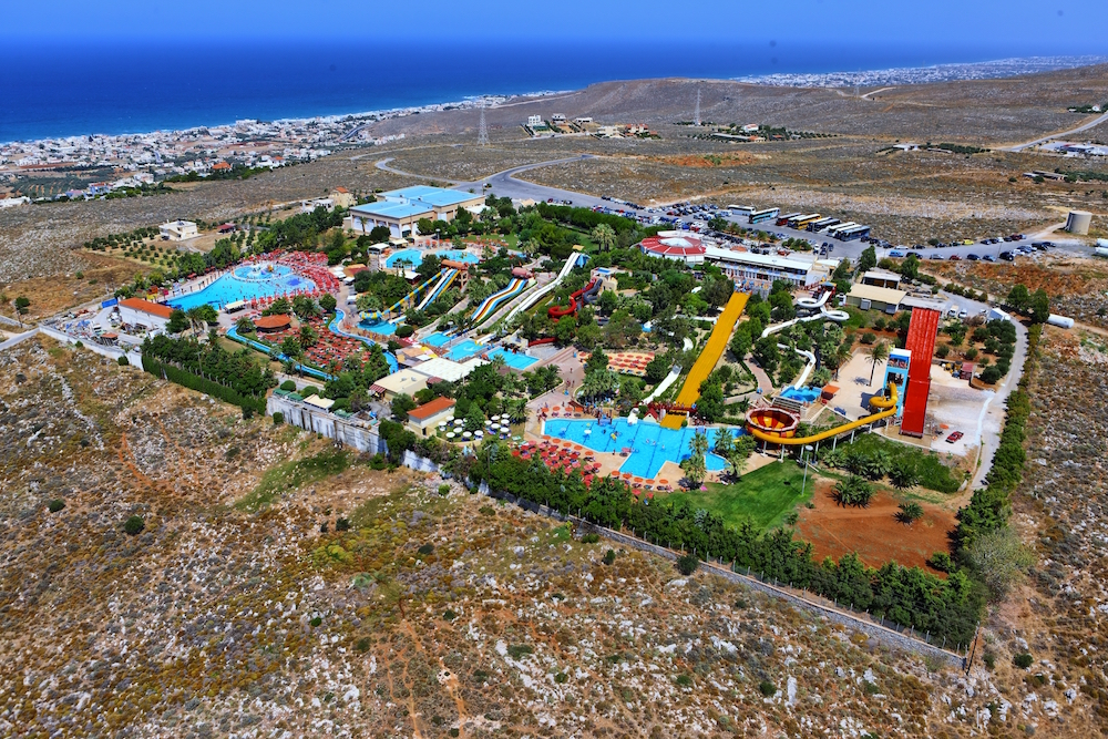 Watercity Waterpark is located in Anopolis area, Crete, Greece.